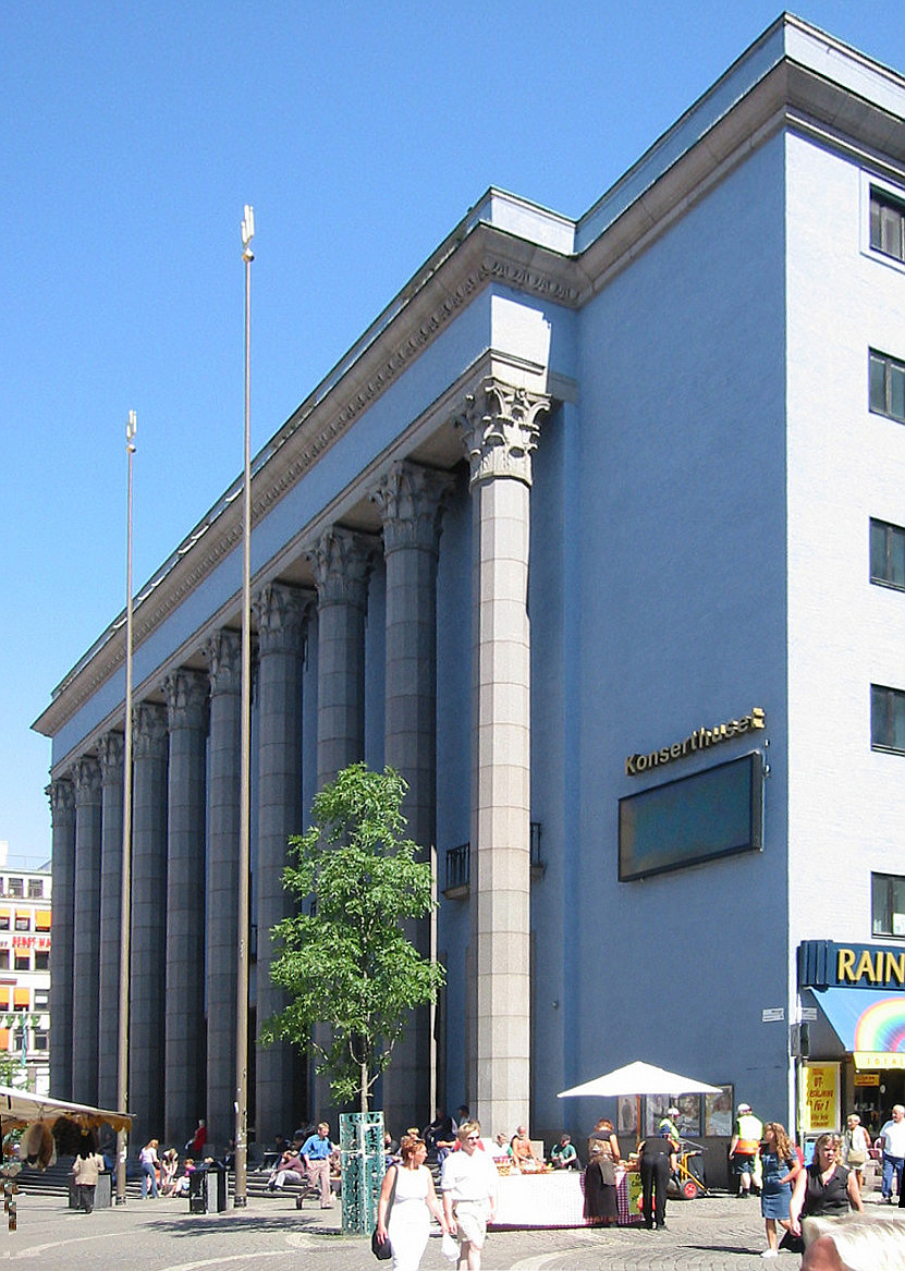 Stockholm Concert Hall, where the awarding ceremonies for the Nobel Prizes (all but the Peace Prize) and the Polar Music Prize are held.